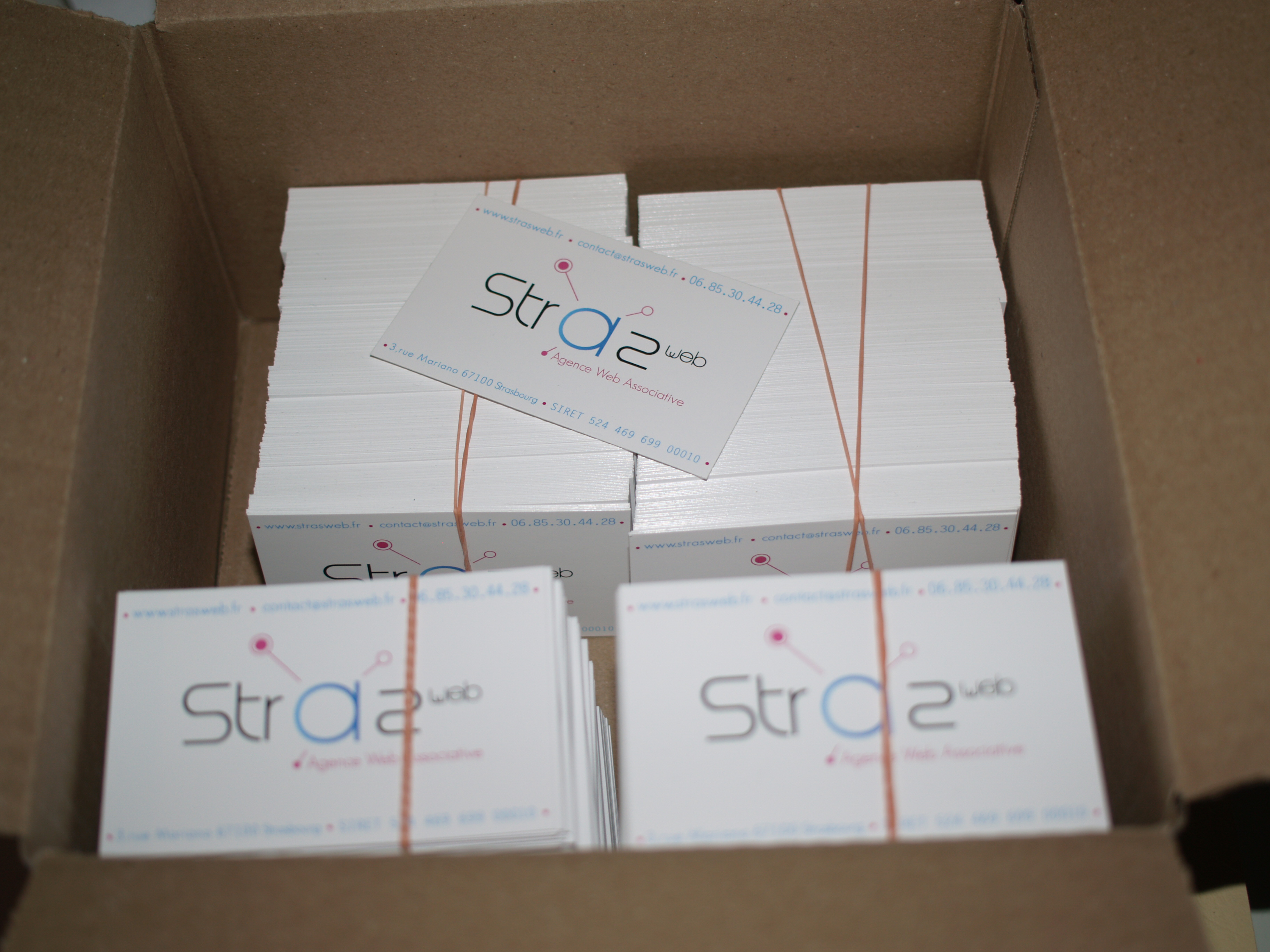 A box full of business cards